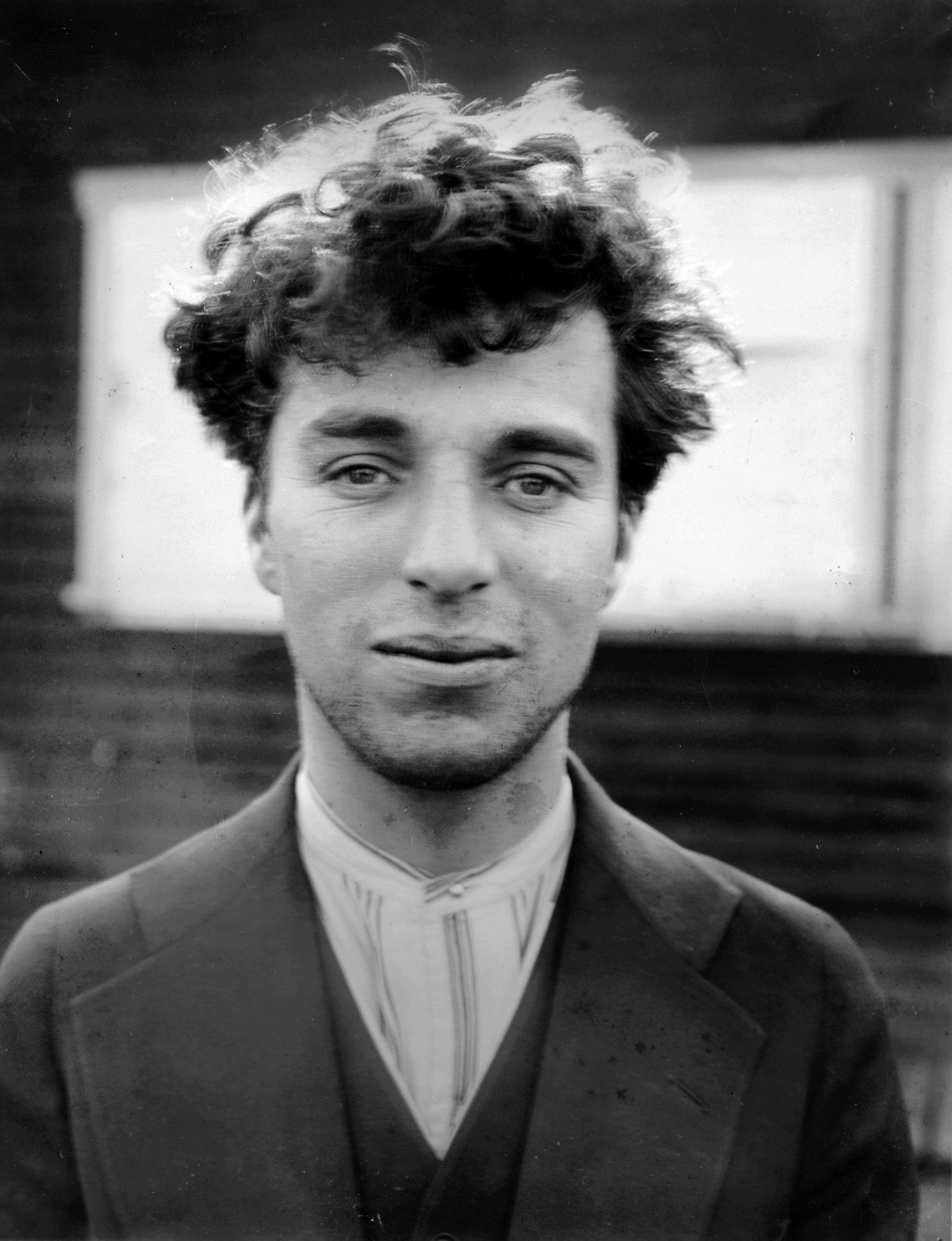 A photographic portrait of Charlie Chaplin as a young man, Hollywood, taken around 1916.